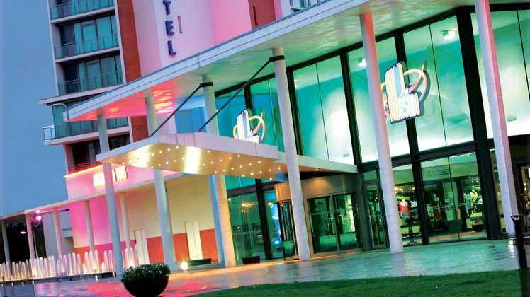 Pasino de Saint-Amand devanture